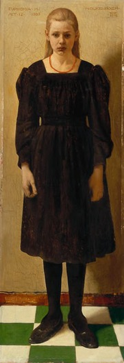 Portrait of Euphemia Molkenboer